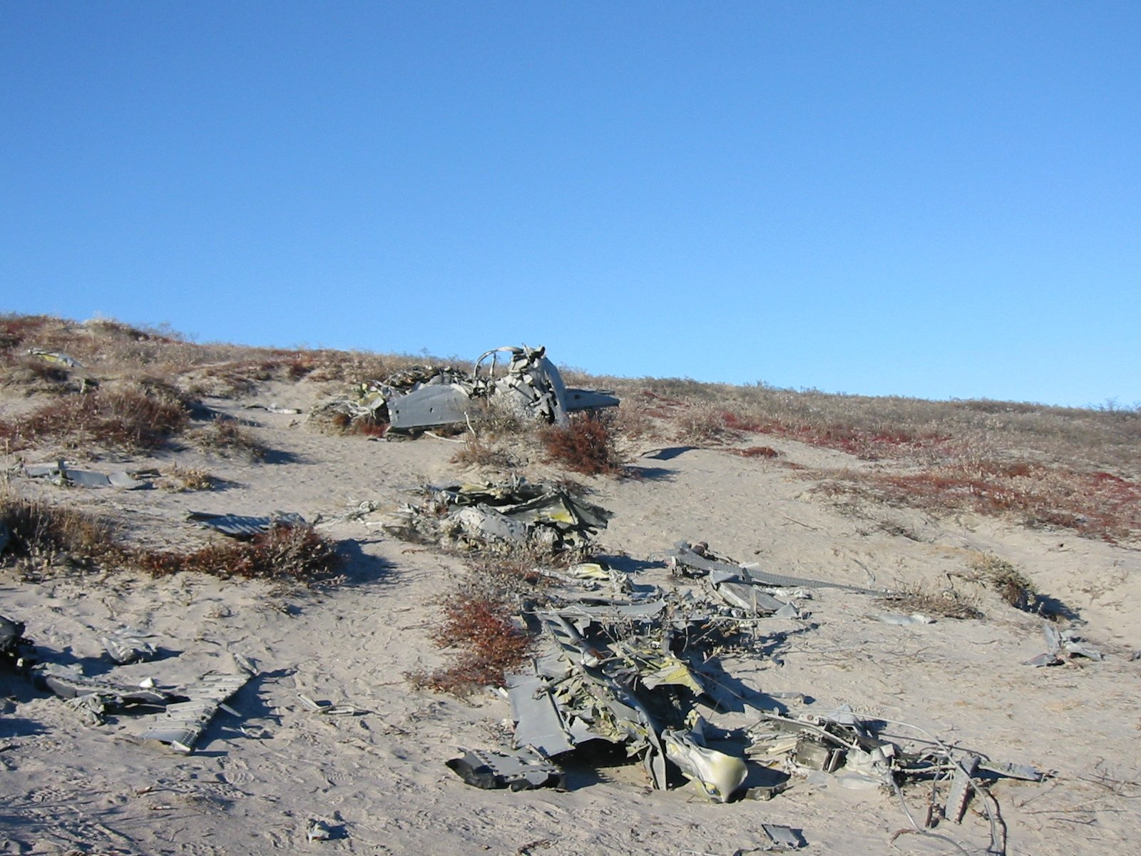 Wreckage of a Lockhead T-33 on road near Kangerlussuaq airport, Greenland. During a whiteout, three planes crashed in 1968. This is the wreckage of one of them, simply left by the roadside. All pilots ejected and were found safe and well.